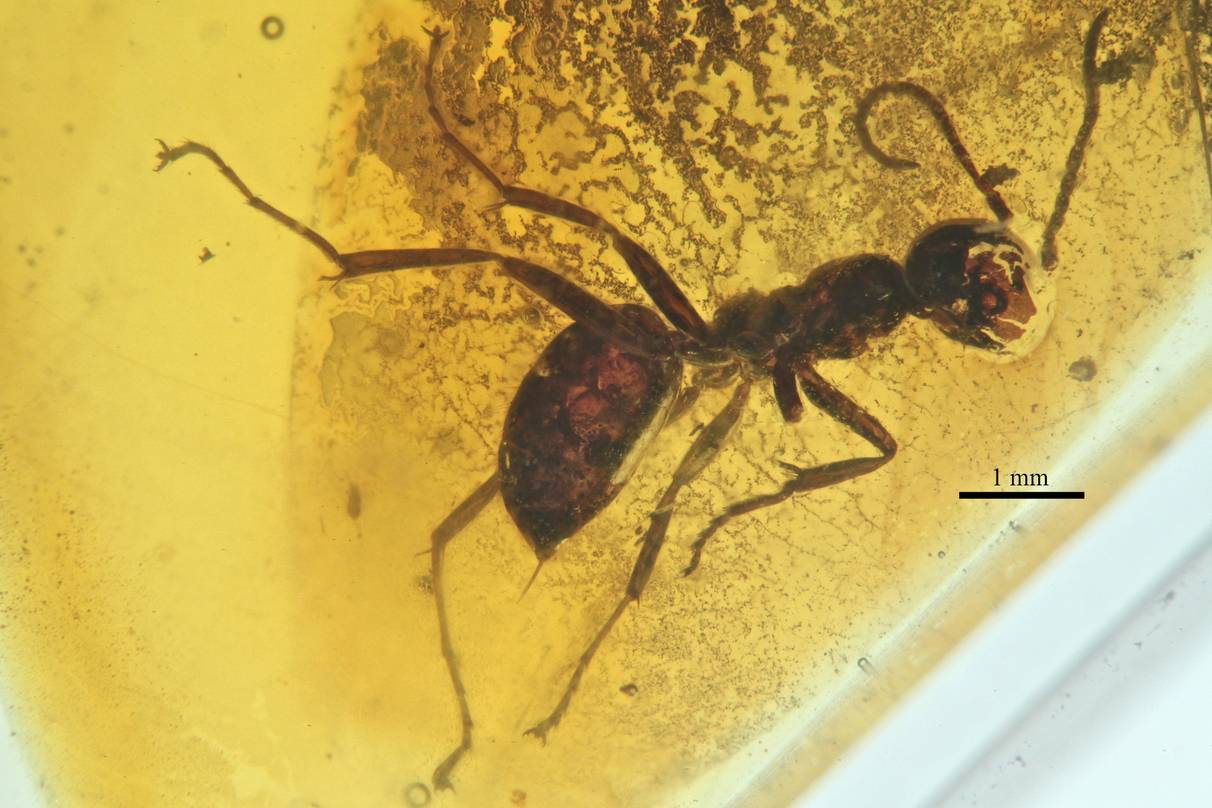 Profile view of Sphecomyrma freyi worker specimen AMNH-NJ943B. New Jersey Amber, Turonian (90 MYA), New Jersey, USA